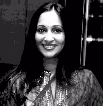 Ashwini Bhave